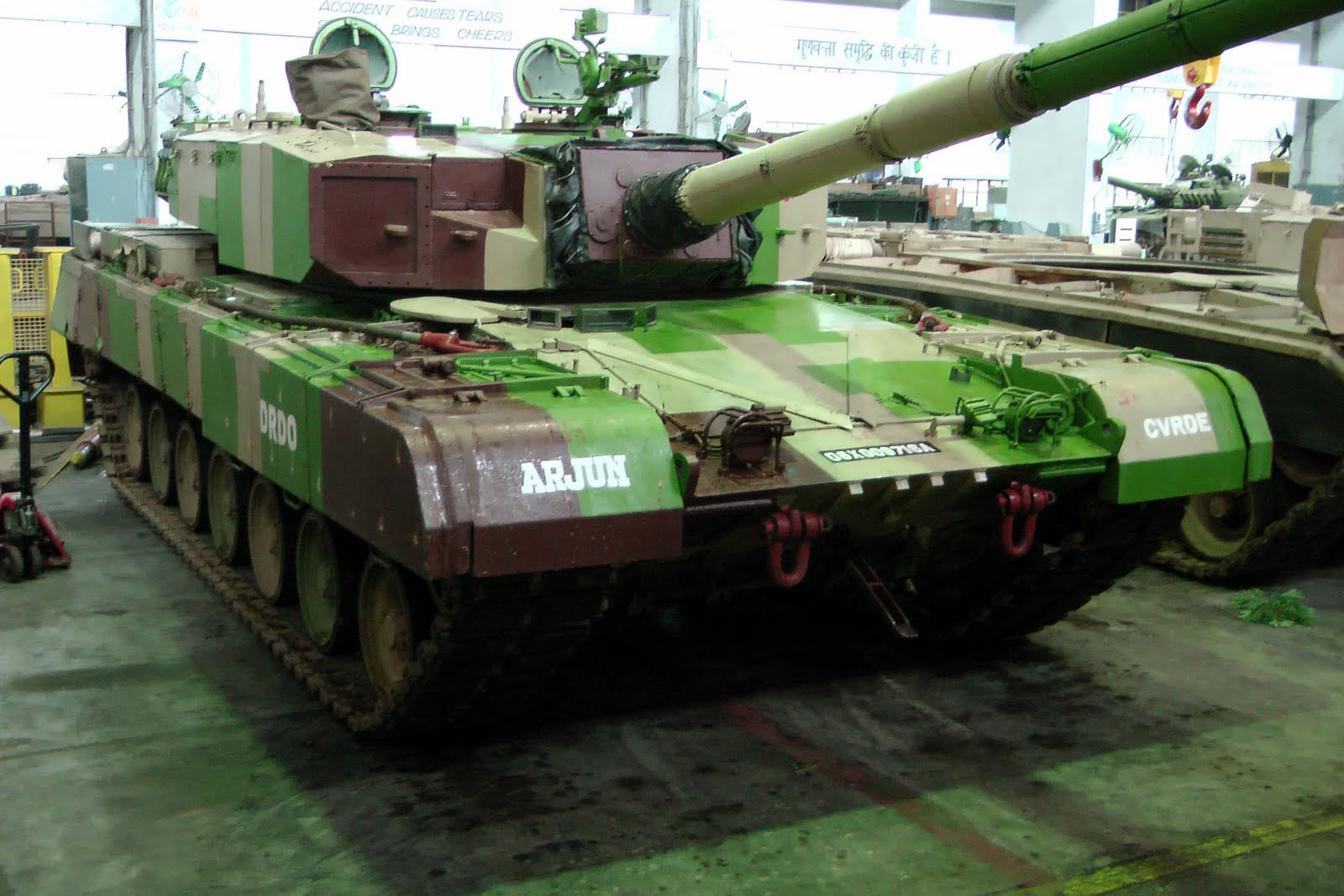 The modified Arjun on which many proposed modifications are already done. Other improvements feature on another test tank.